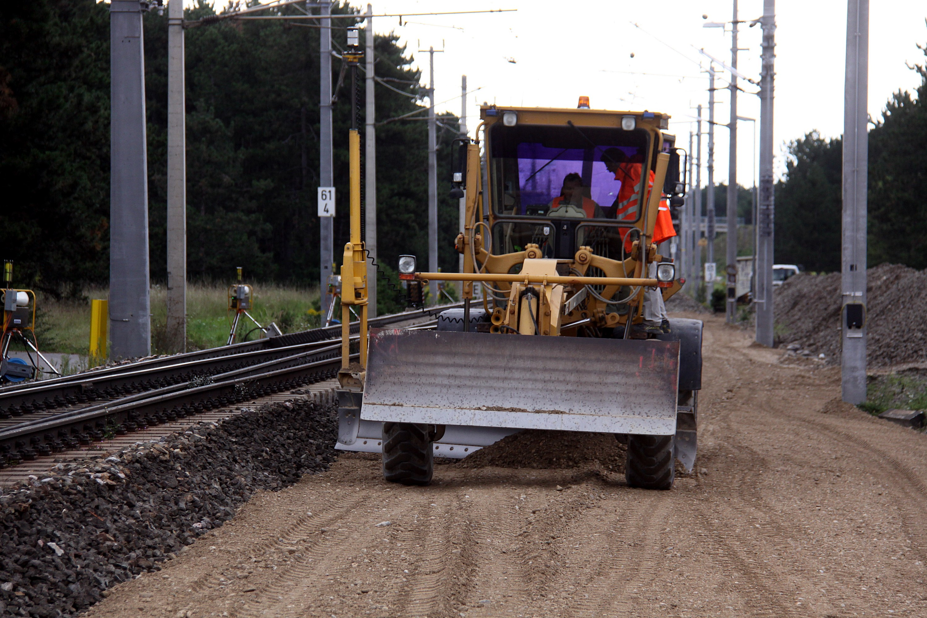 Total remodeling, renovation and modernization of Neunkirchen railwaystation. – Grader with GPS device in the grading of the ground.